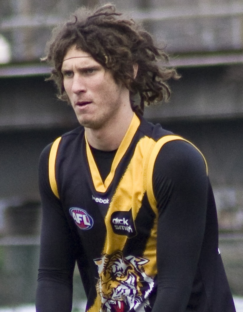 Tyrone Vickery, Richmond training august 1st 09